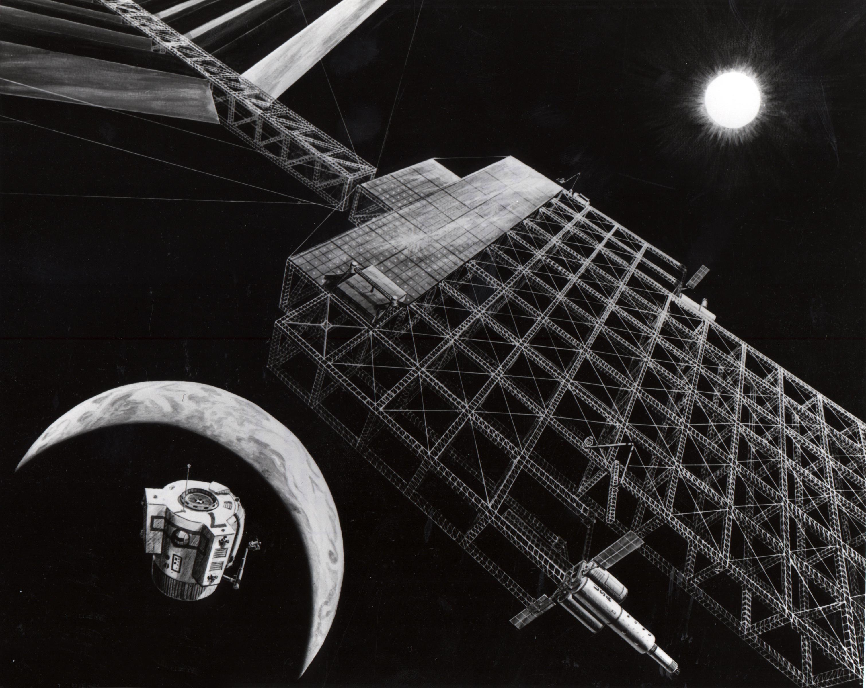 Following description copied from source page Title Solar Power Satellite Full Description This is what an artist envisioned the Solar Power Satellite would look like. Shown is the assembly of a microwave transmission antenna. The solar power satellite was to be located in a geosynchronous orbit, 35,786 kilometers (22,236 miles) above the Earth's surface. Keywords international space station concepts Skylab power Subject Category Space-Station Concepts, Miscellaneous Reference Numbers Center: HQ Center Number: 76-HC-632 GRIN DataBase Number: GPN-2003-00108